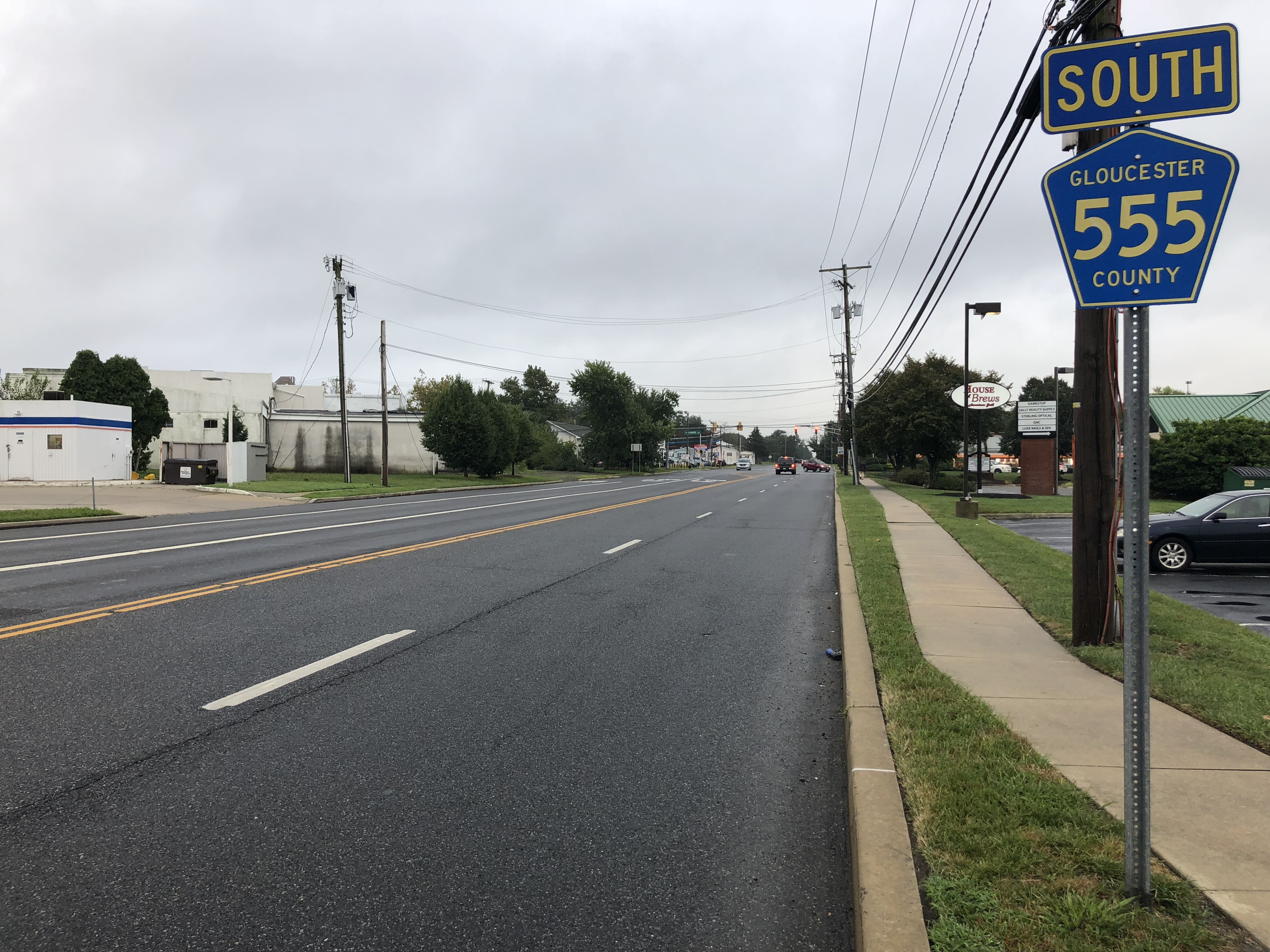 View south along Gloucester County Route 555 (Tuckahoe Road) just south of New Jersey State Route 42 (Black Horse Pike) in Washington Township, Gloucester County, New Jersey